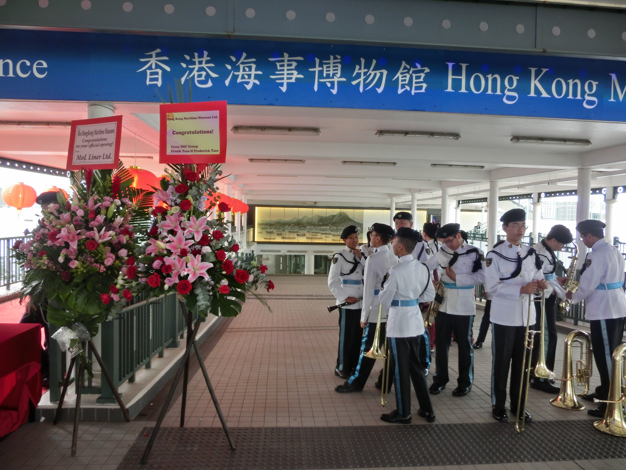 香港海事博物館, Hong Kong Maritime Museum, Central Ferry Pier 8, Central, Hong Kong